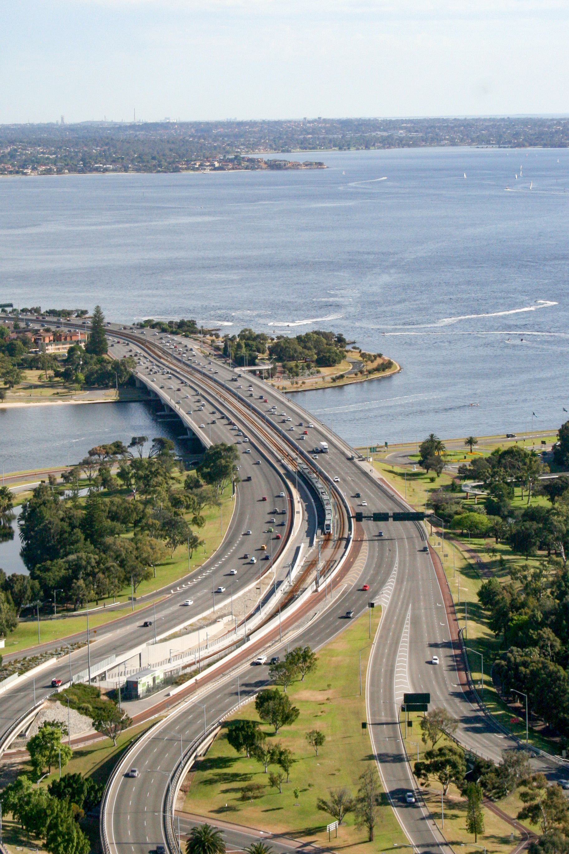 Narrows Bridge viewed from QV.1. The train seen on the railway bridge is travelling southbound.